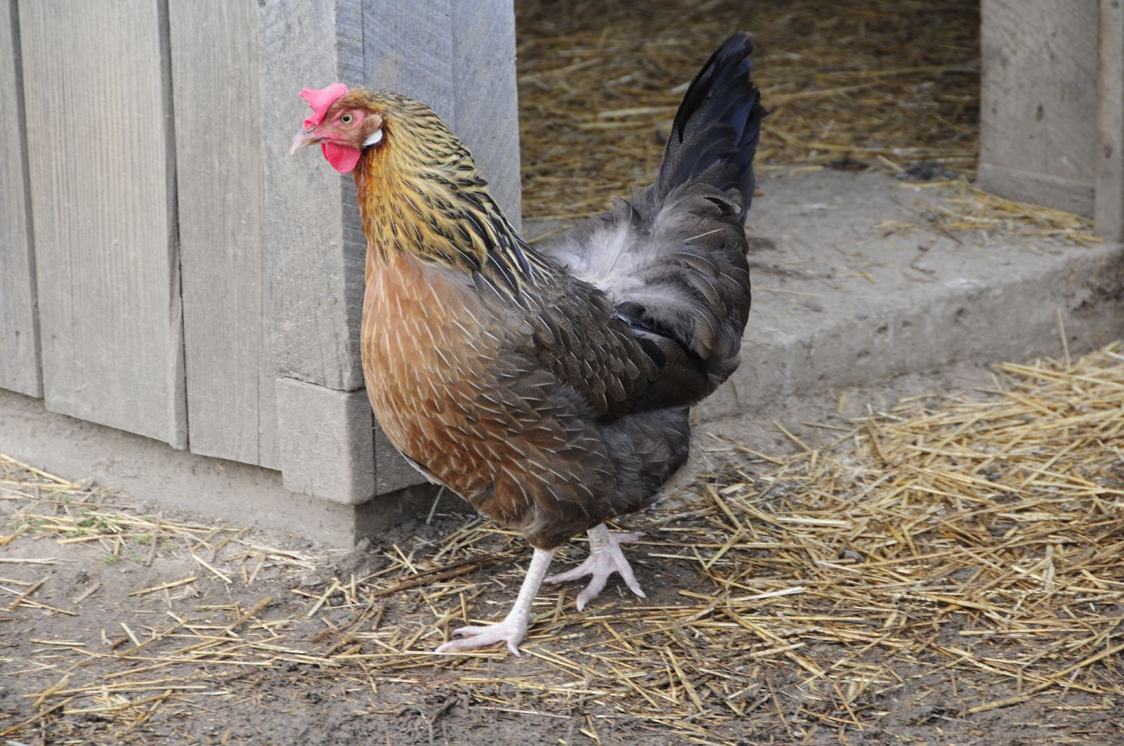 A barnyard hen, almost certainly a Brown Leghorn.